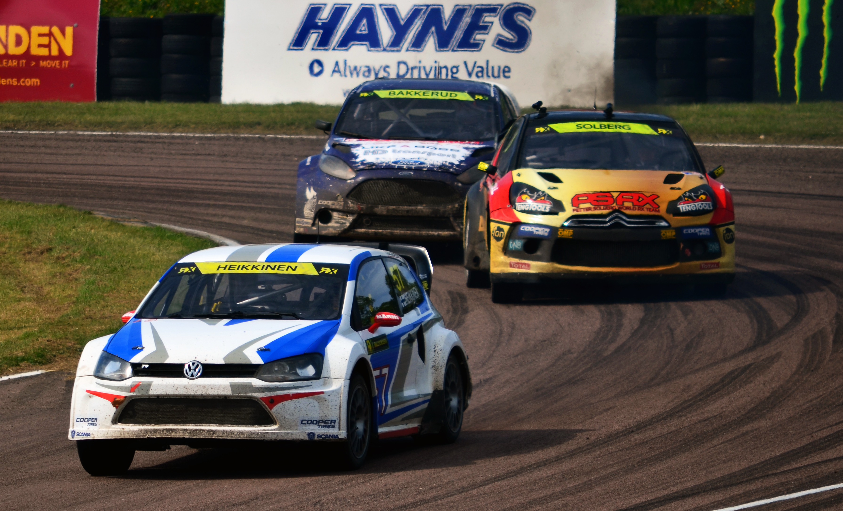 Toomas Heikkinen leads the way out of the North Bend hairpin in the first super car semi-final of round 2 of the 2014 FIA World Rallycross Championship as Andreas Bakkerud looks for a way past Petter Solberg.